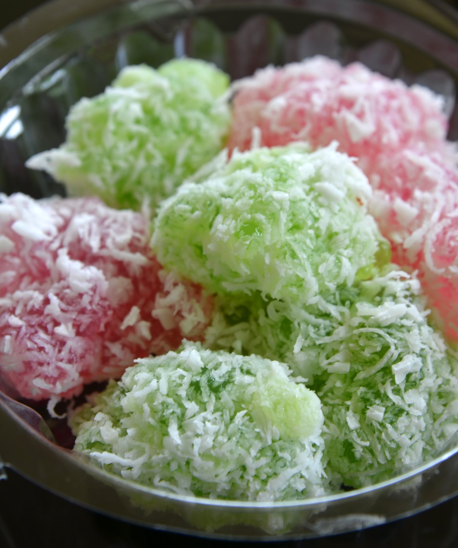 Khanom tom (Thai script: ขนมต้ม) are sweets made by boiling balls of dough made from glutinous rice powder, coconut cream, grated coconut, sugar and flavourings (green for pandanus flavour, pink for rose flavour), and then covering them with more grated coconut.